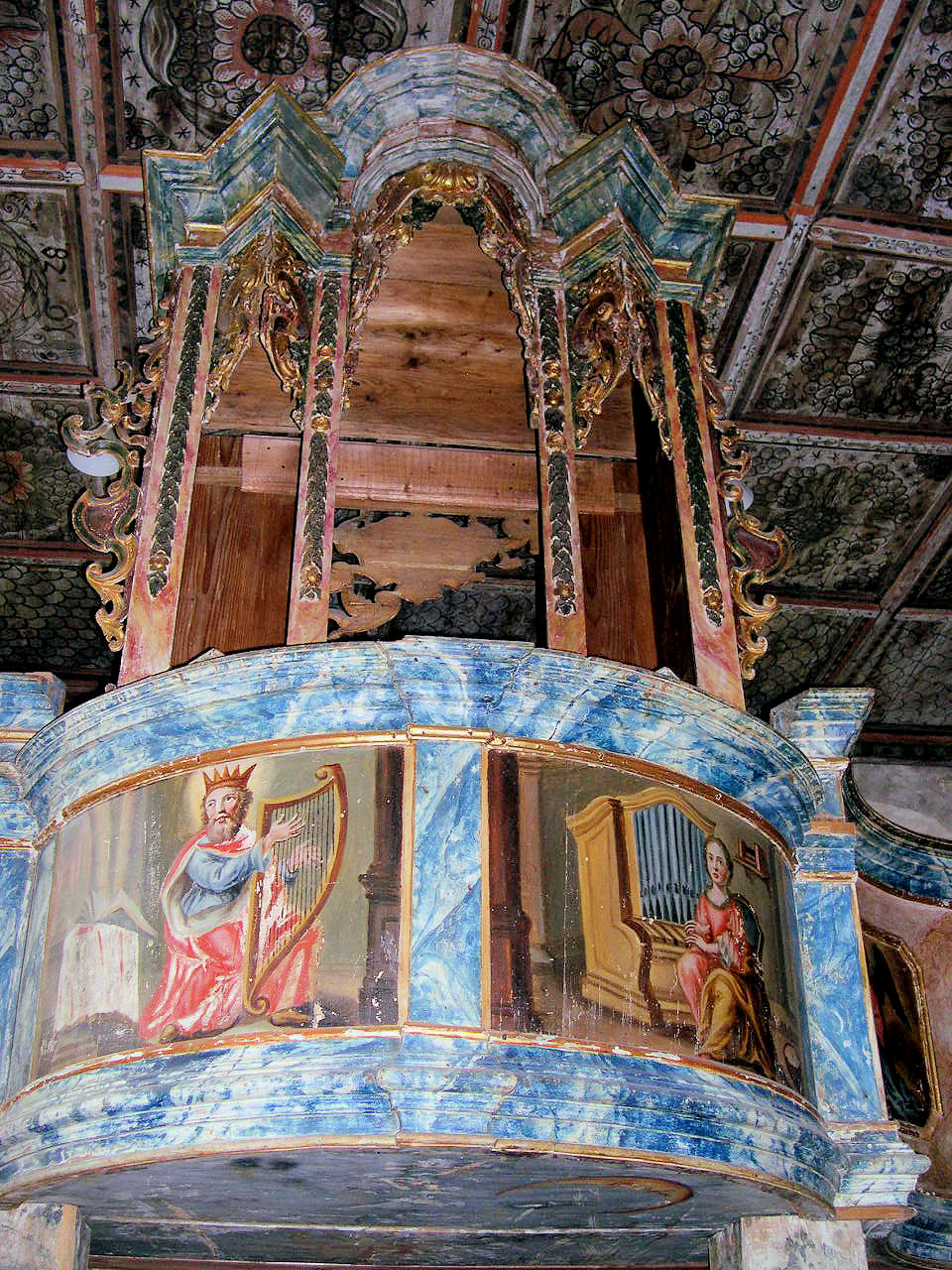 A gelencei Szent Imre-templom